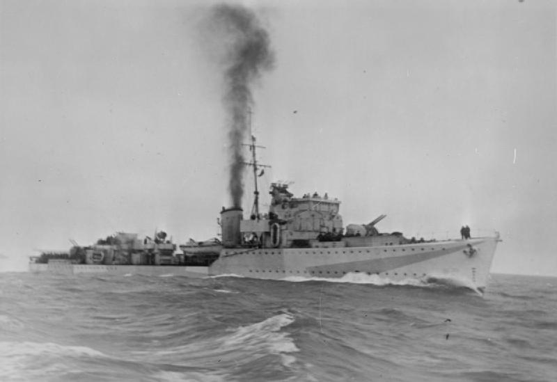 Photograph of British Hunt class destroyer HMS Quorn.